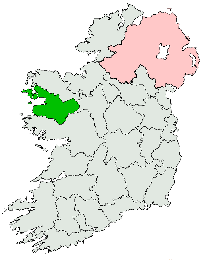 Map of Ireland highlighting the constituency of Mayo South, which existed from 1923 - 1969